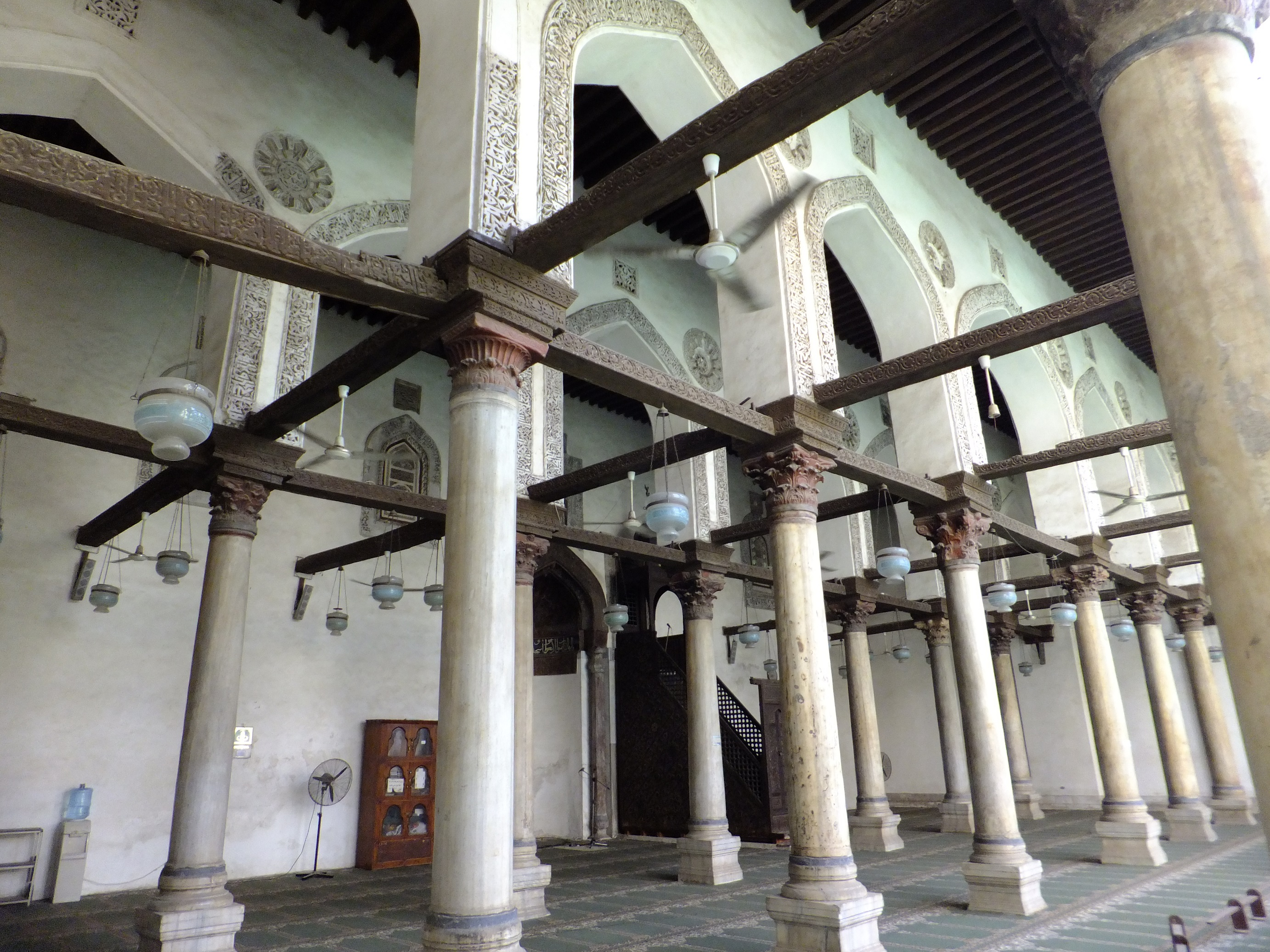 The prayer hall of the Mosque of Salih Tala'i